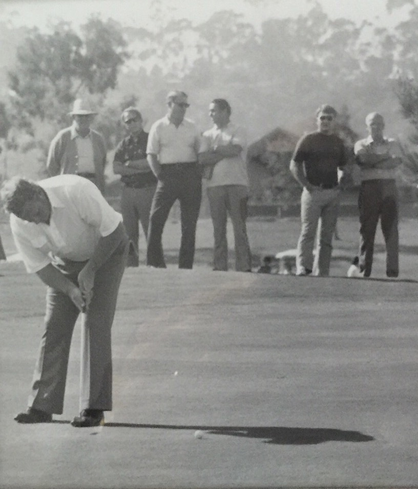 Van Wagenen putting